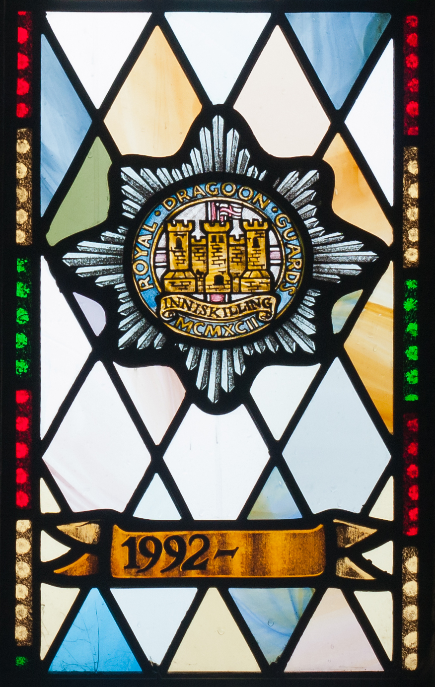 Stained glass window in the north aisle, depicting the insignia of the 5th Royal Inniskilling Dragoon Guards during its history. This is the latest displayed insignia from 1992. Created by CWS Design in Lisburn, Co. Antrim.